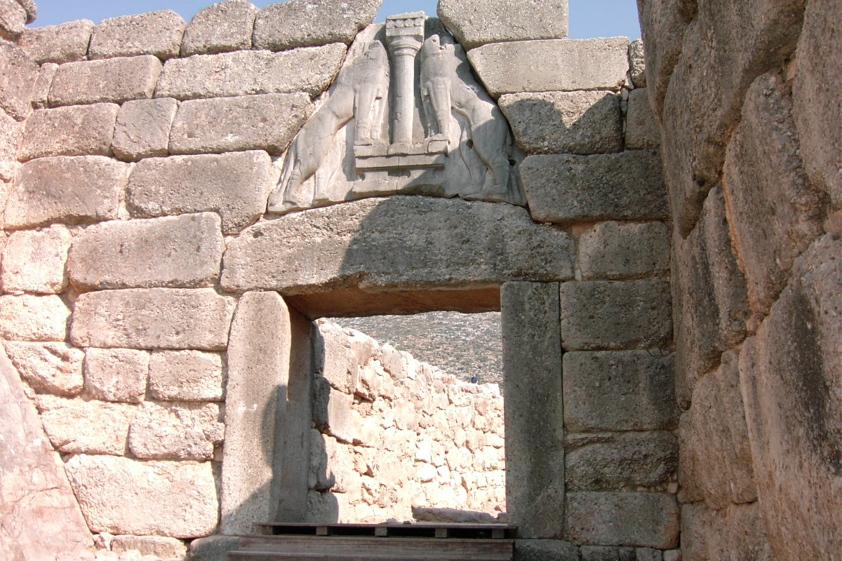 Mykines, Greece